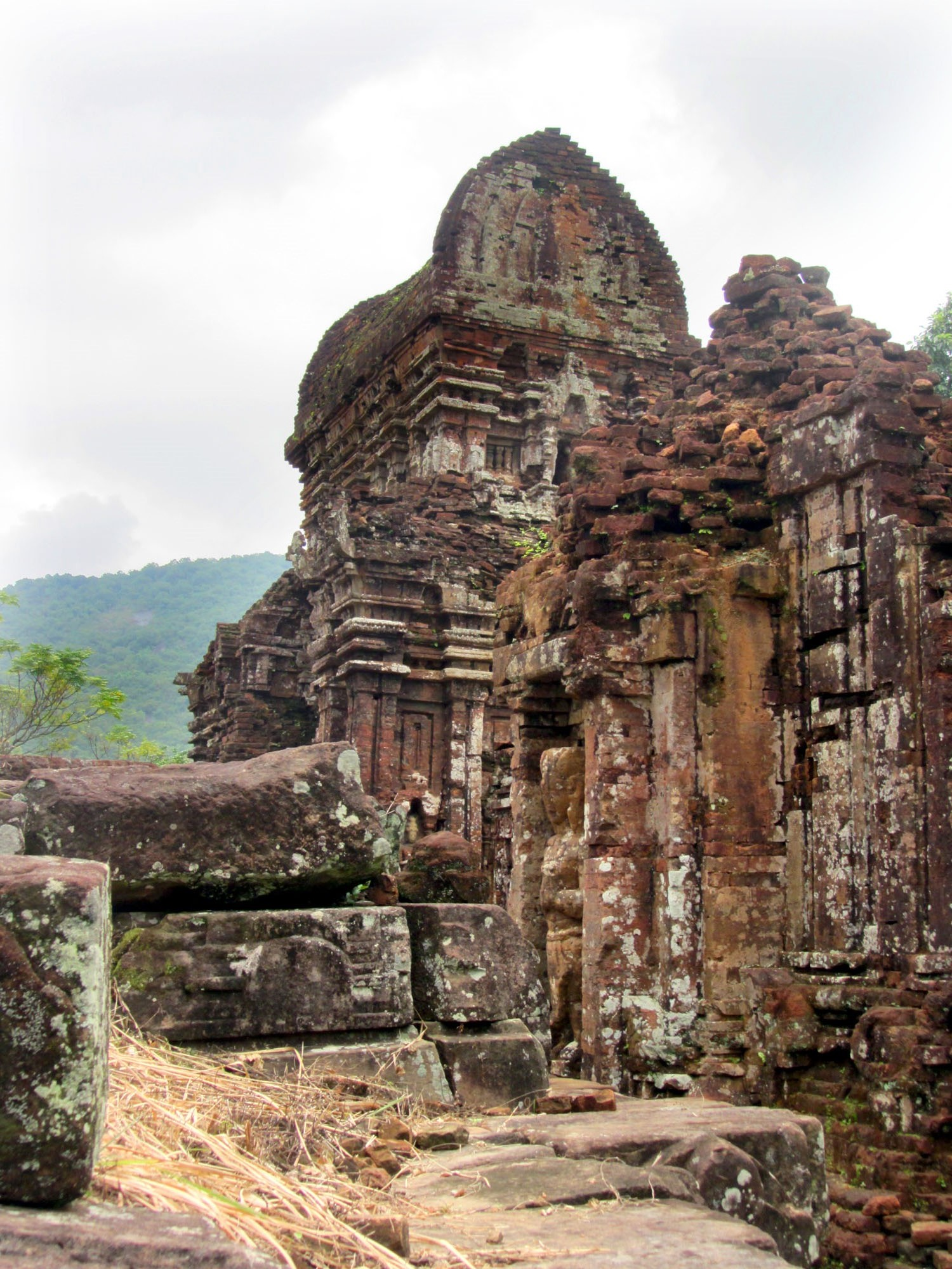 Temples in My Son, right in front deteil of C5, bhind C7